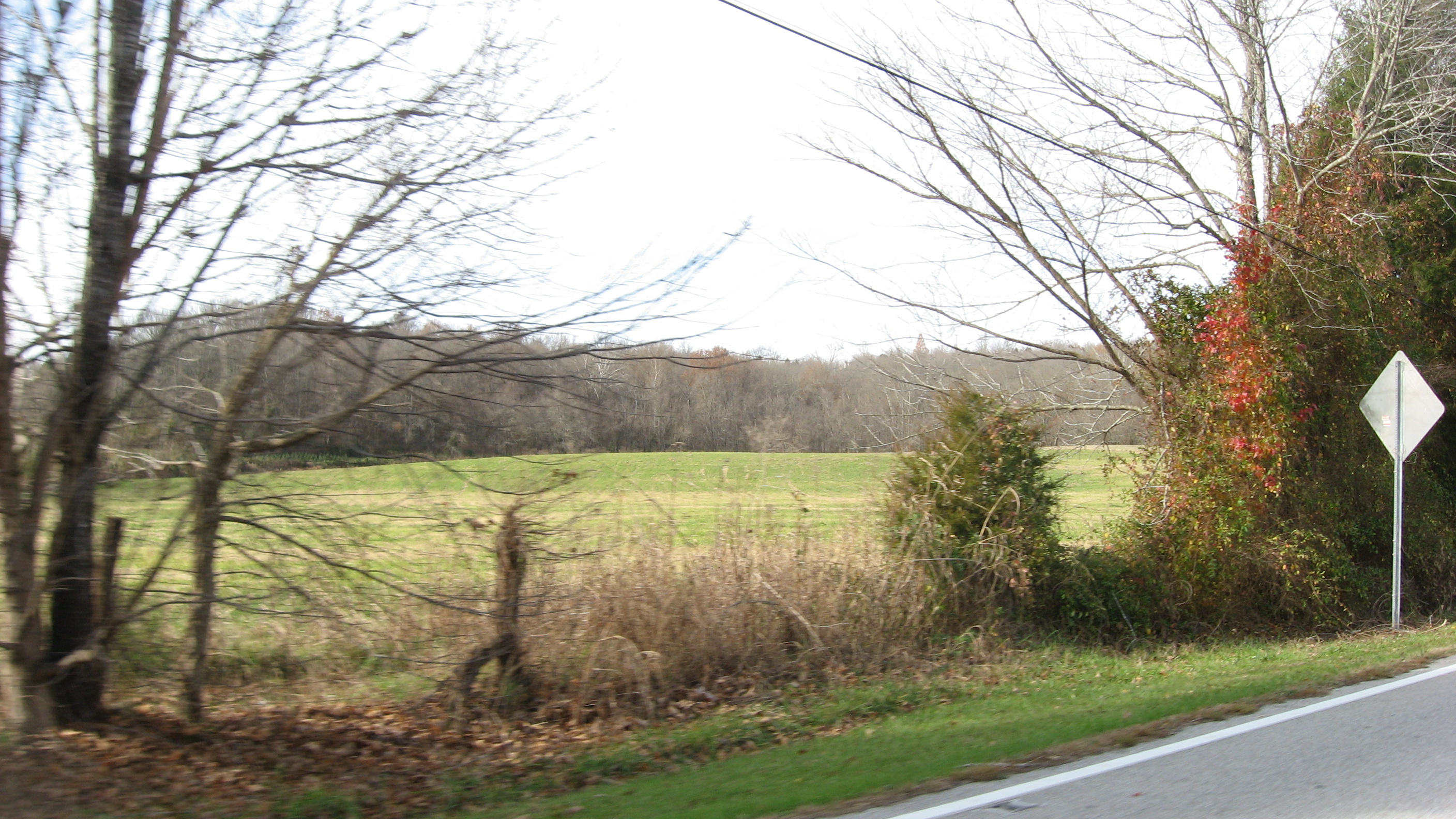 Open land in Franklin Township, Clermont County, Ohio, United States, seen looking northwest from State Route 133. The fields compose the Bullskin Creek Site, an archaeological site from the Late Archaic period that is listed on the National Register of Historic Places.